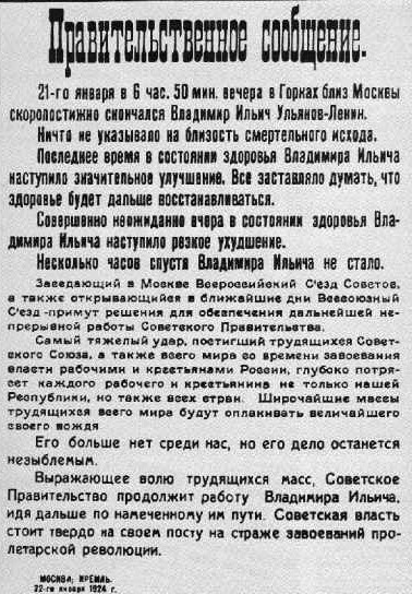 Soviet information poster about death of Vladimir Lenin.